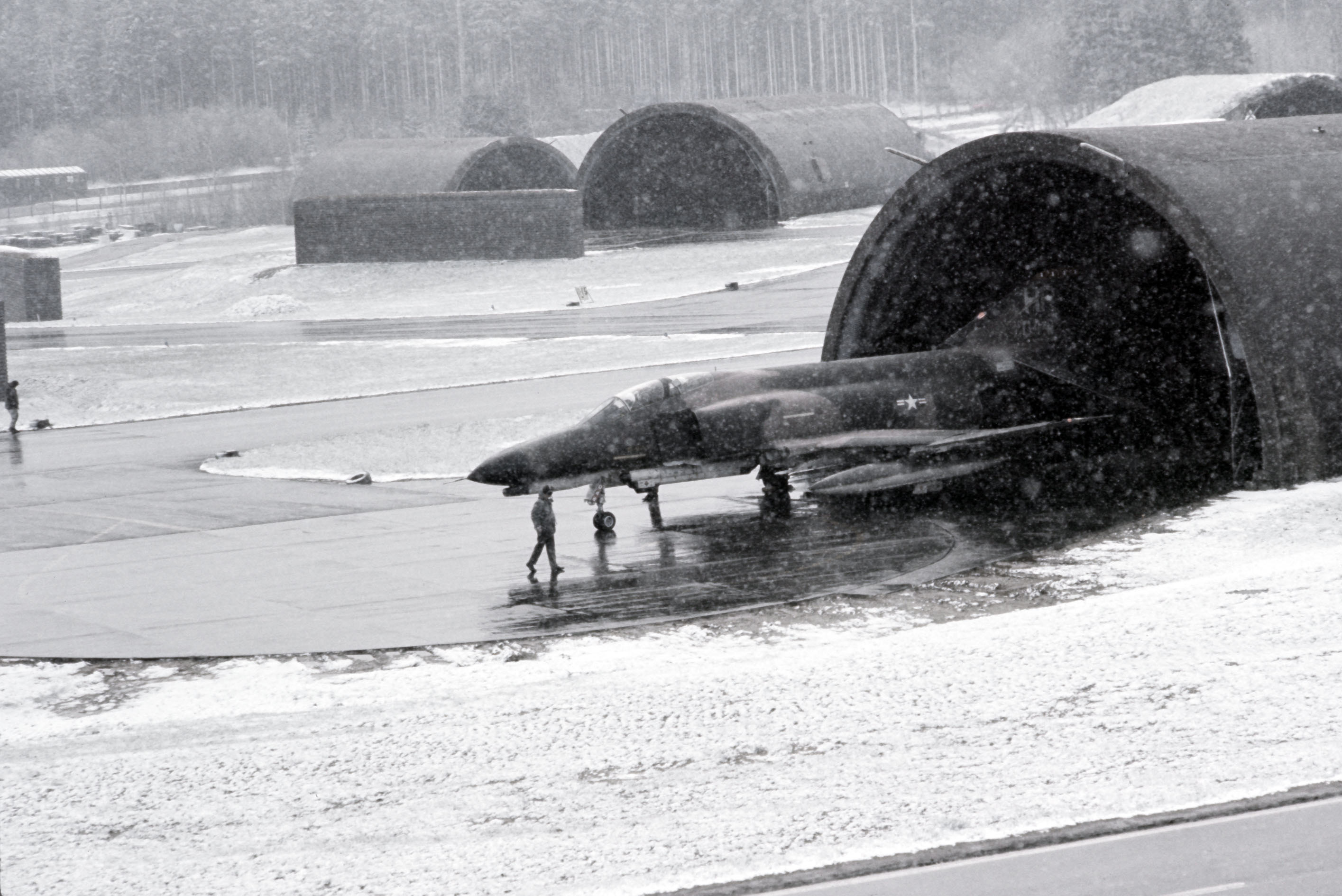 U.S. Air Force flight line personnel of the 50th Tactical Fighter Wing at Hahn Air Base, Germany, wait for snowy conditions to clear prior to guiding an McDonnell Douglas F-4E Phantom II aircraft out onto the runway during exercise "Salty Rooster" on 15 April 1978. The F-4E is equipped with an AN/ALQ-119 jamming pod.